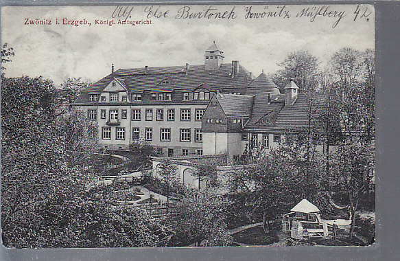 Amtsgericht Zwoenitz rueck 1915